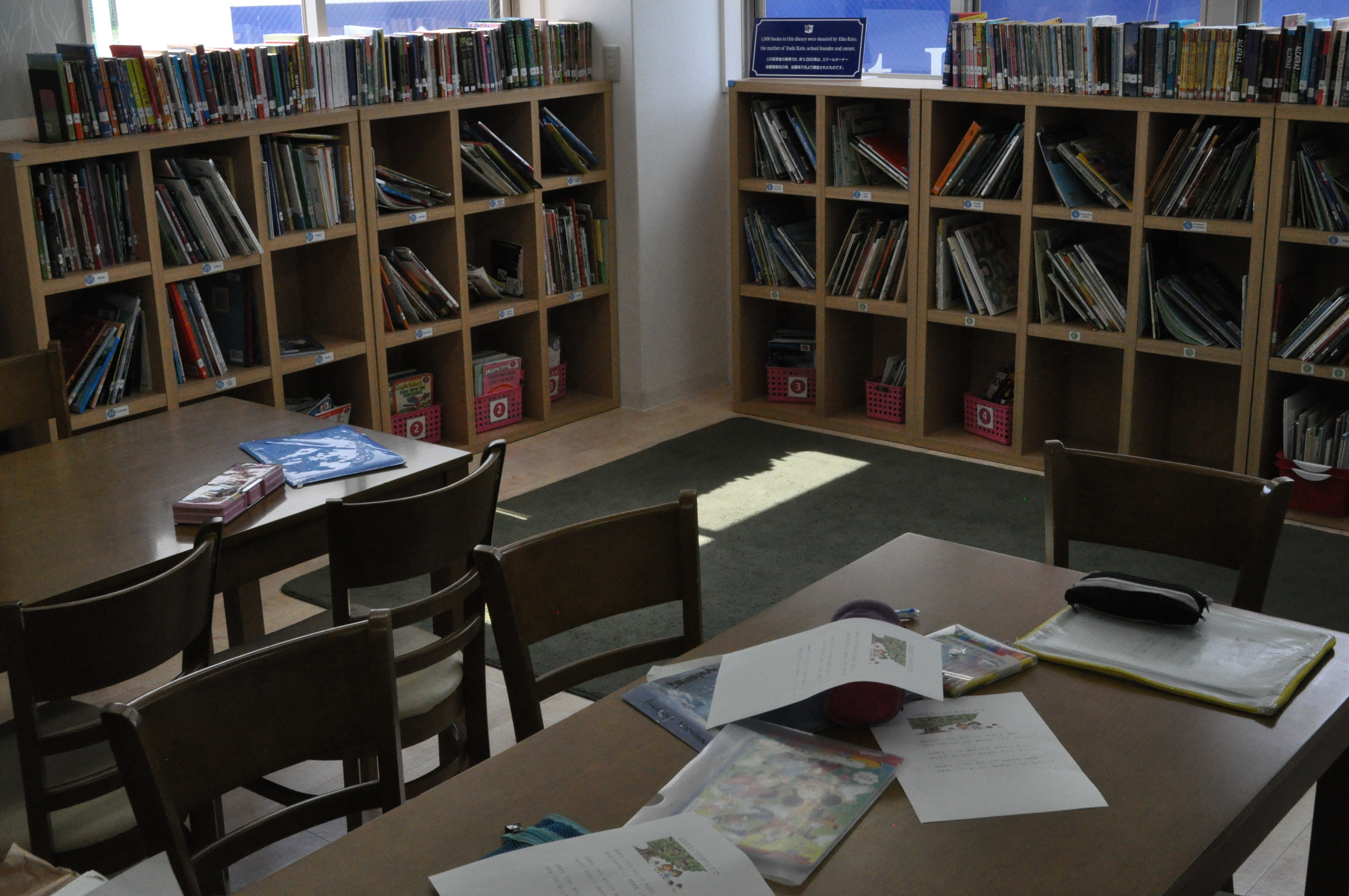 TWIS library's picture